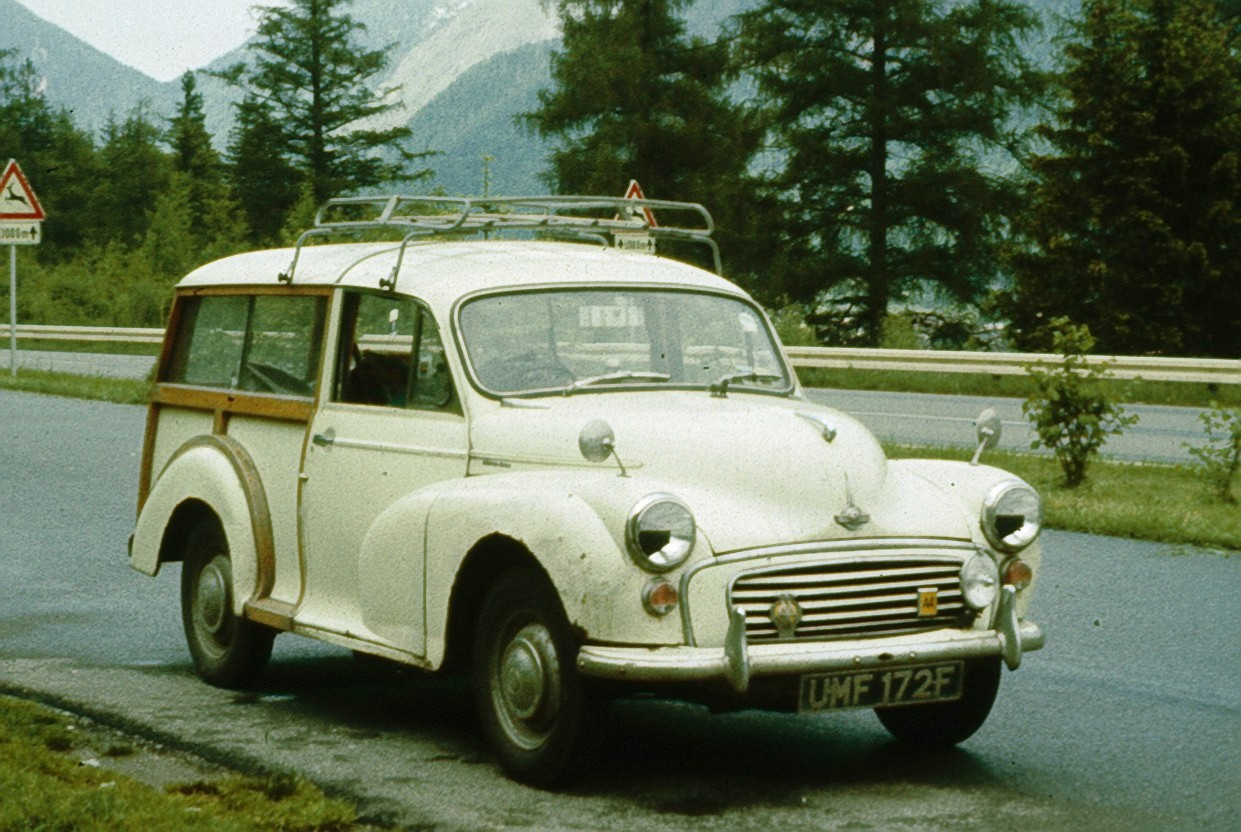 Morris Minor 1000 Traveller at Autobahn Parkplatz between Muenchen & Garmisch-Partenkirchen This car was first registered in February 1968 at which time it had a 1098cc "BMC A-series" engine. It was sold in approximately 1978 to a gentleman who at that time worked on the maintenance of the city car parks in Cambridge. It has subsequently been lovingly "restored" (recreated?) and according to the DVLA data base is fitted with a 1275cc "BMC A-series" engine. According to information received around 2012 it has also had the brakes replaced so that now the car stops when you use the brake pedal. And the dents have disappeared and the car has been repainted, though it still appears to be coloured in (or close to) "Snowberry white"